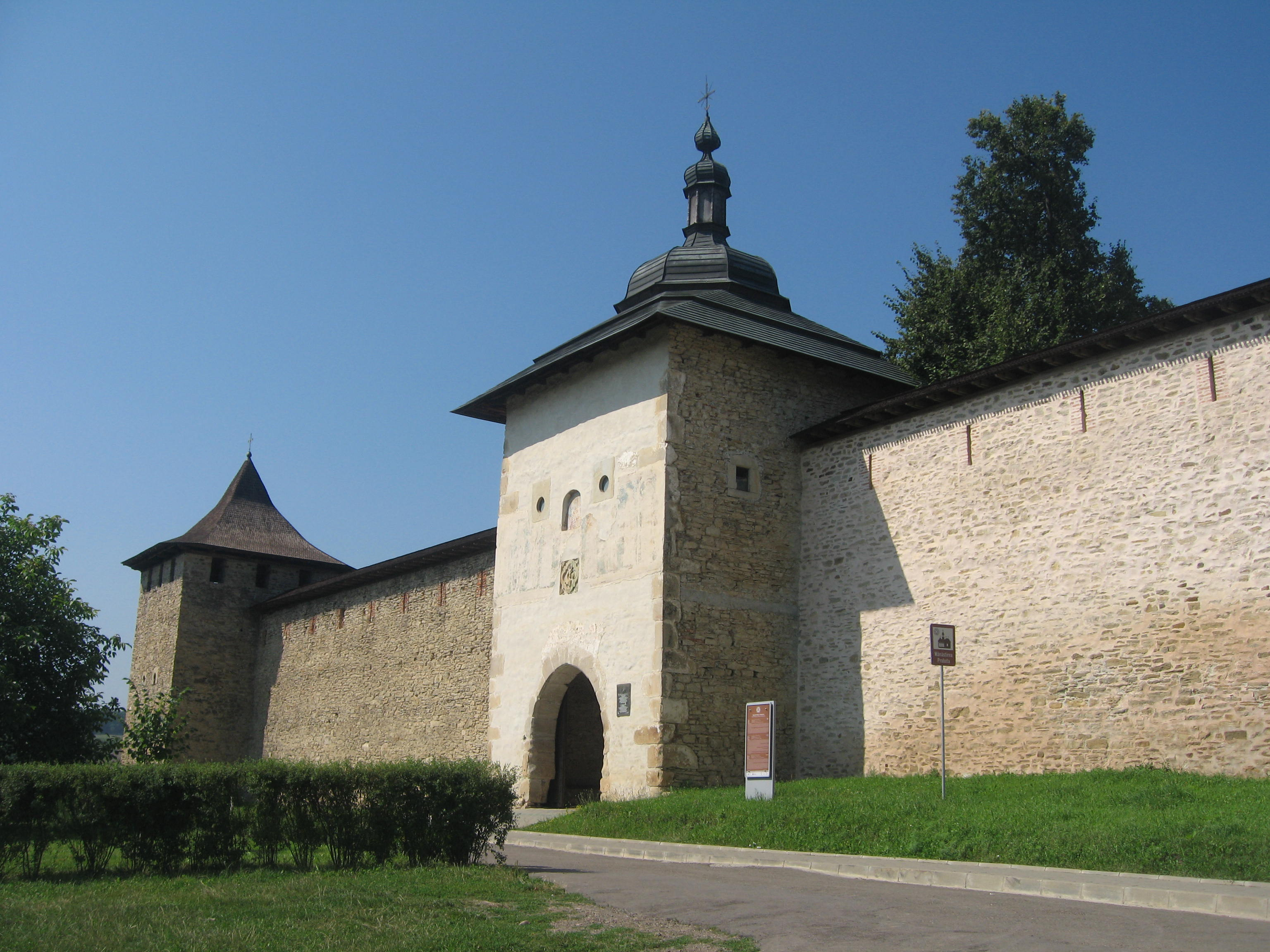 Probota Monastery 06